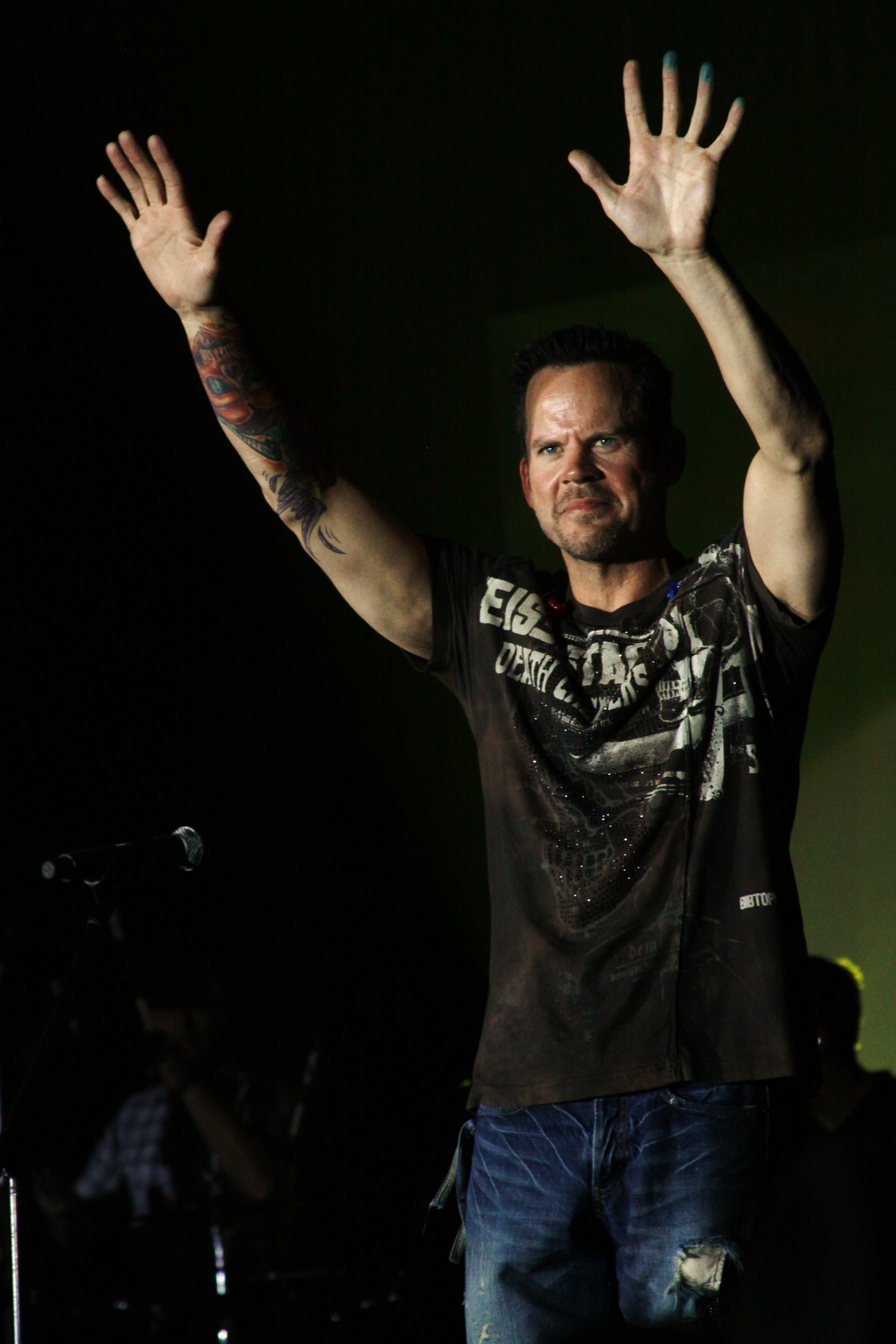 Gary Allan exiting the stage for the final time at the Inn of The Mountain Gods Casino and Resort in Mescalaro, NM.